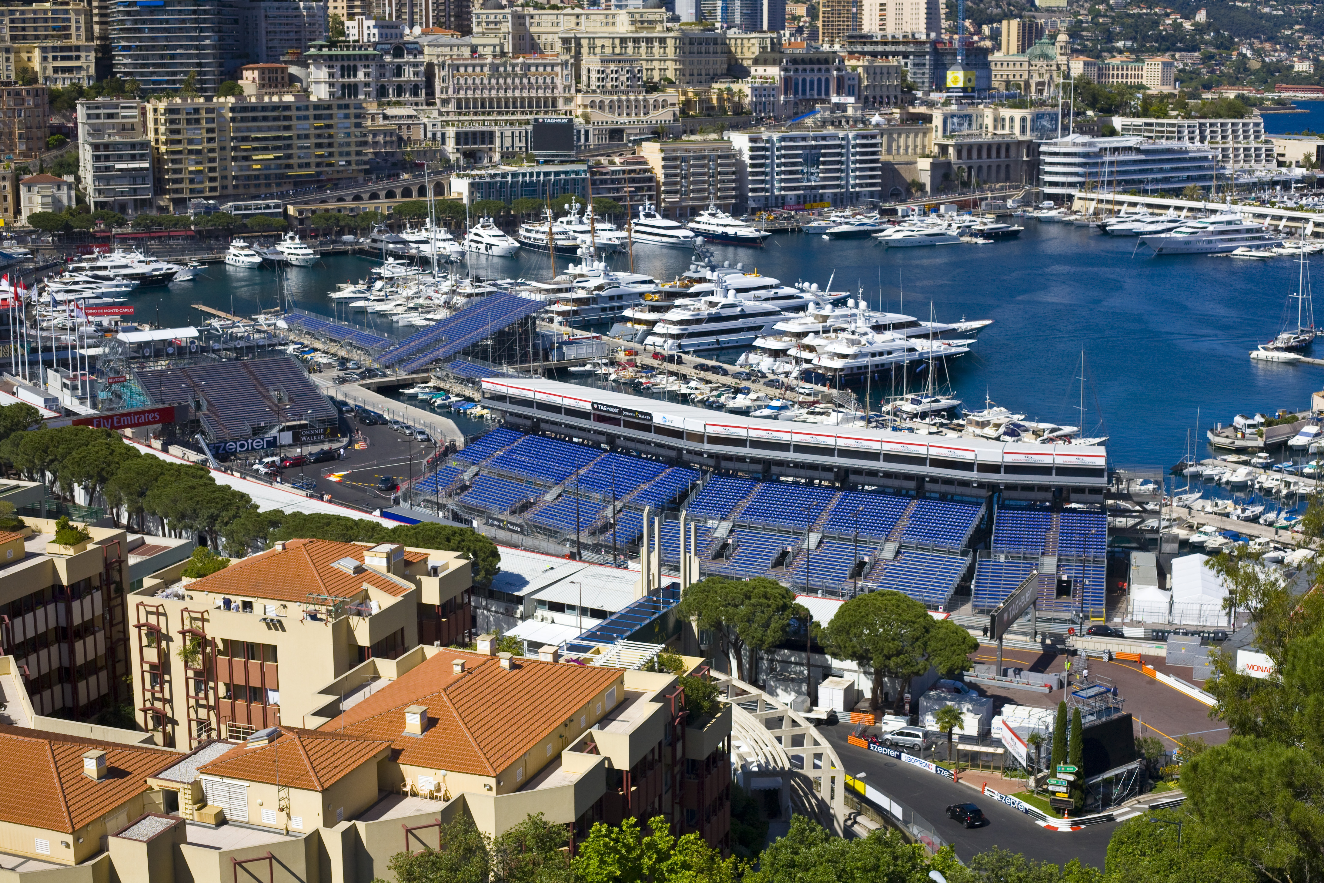 Monte Carlo Port and Grand Prix Track